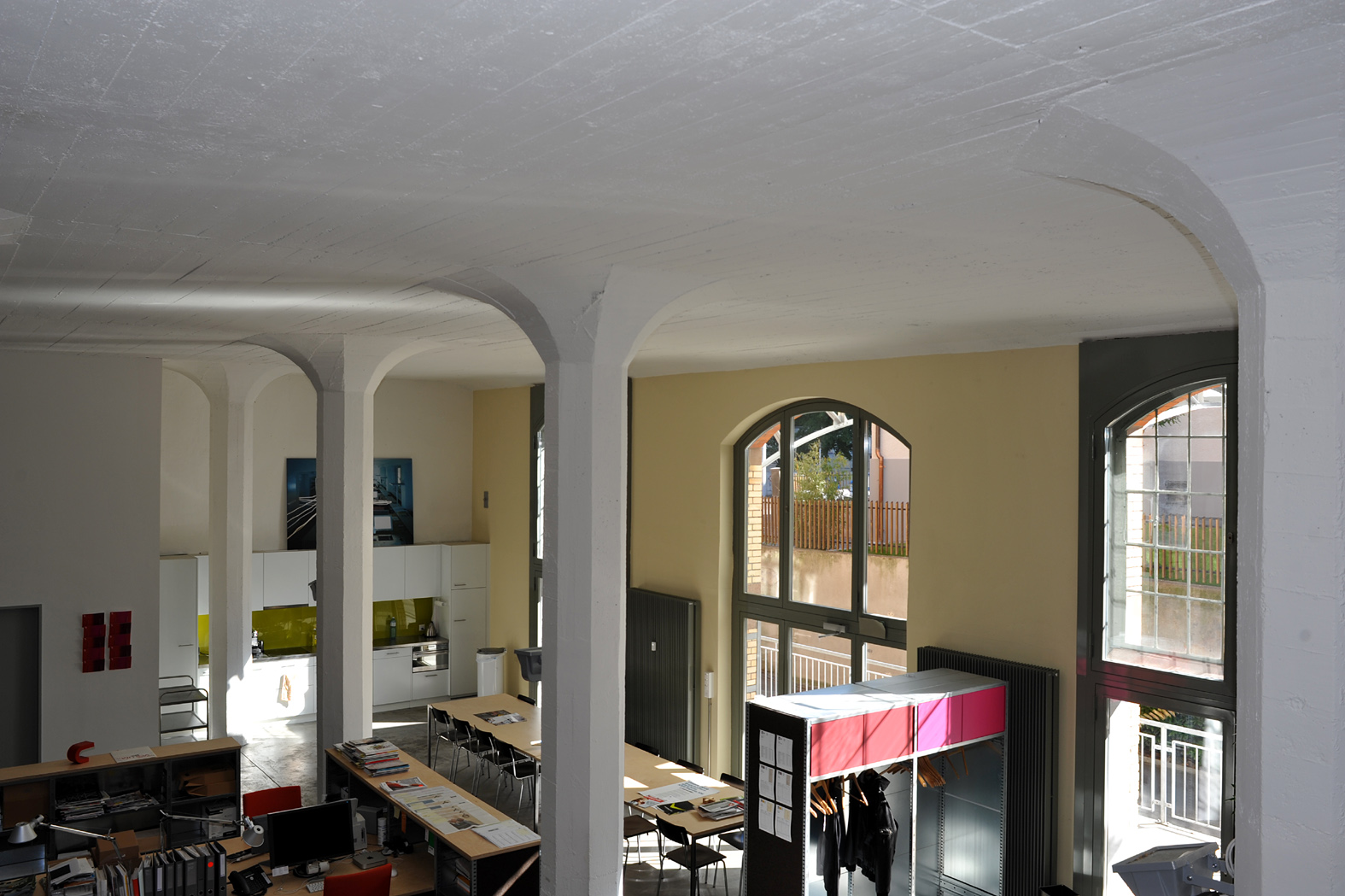 Warehouse Giesshübel, built 1910; Zürich, Switzerland. On this building Robert Maillart applied the first time the technique of the mushroon slab. The warehouse rooms were transformed 2008 for residential and commercial use. Details of the mushroom slab at the ground floor.